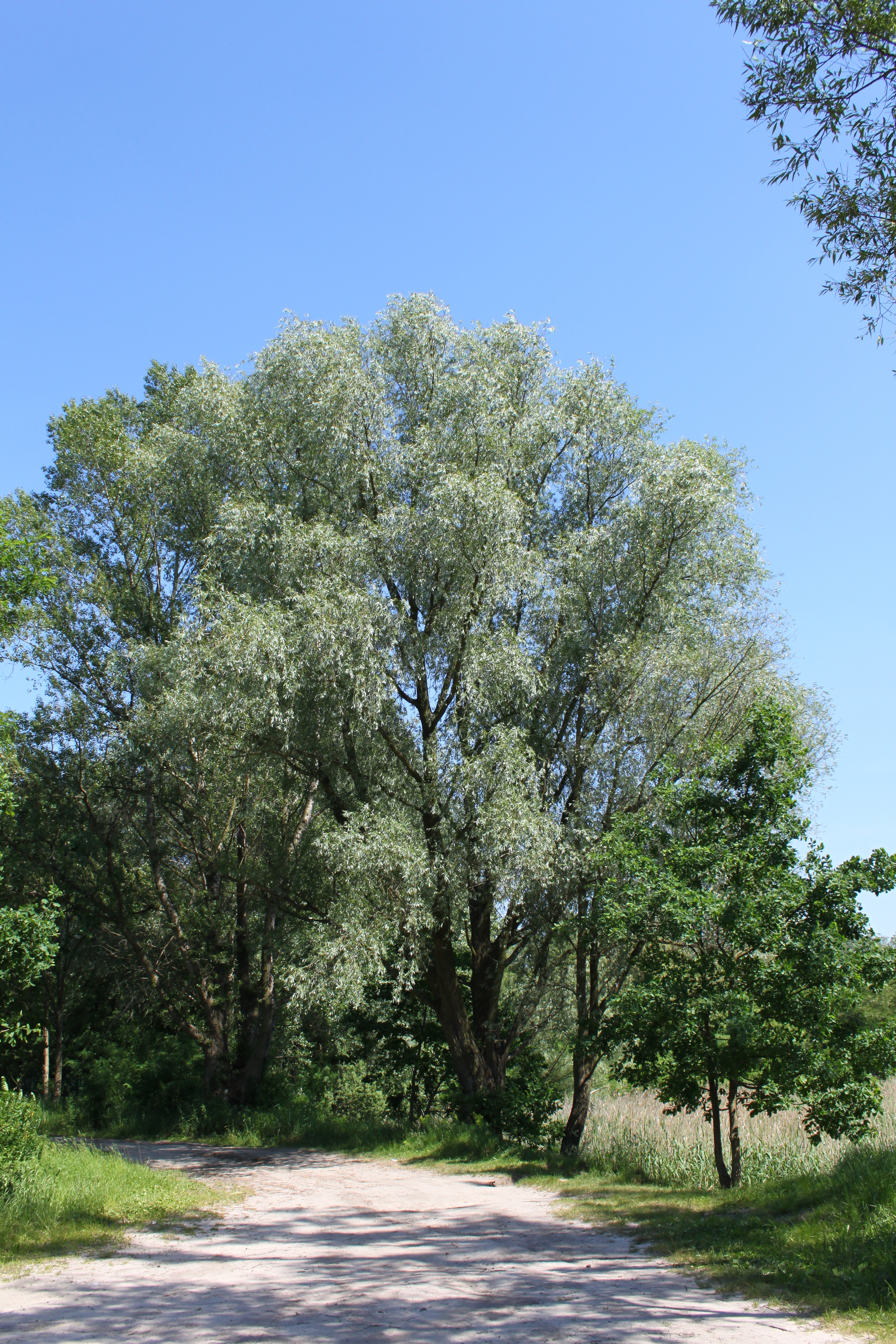 Salix alba in Marki, Poland